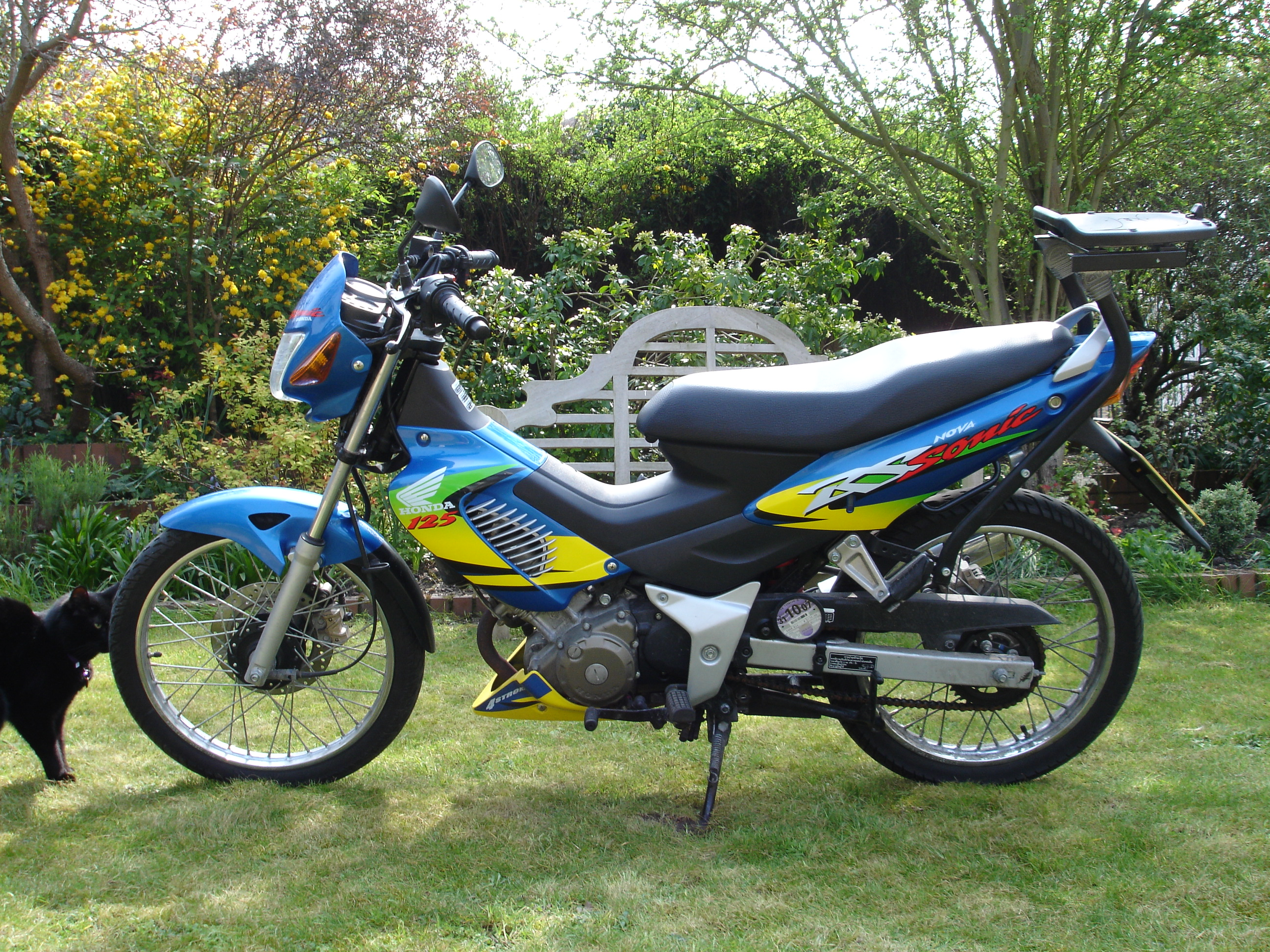 Old Model of Honda Sonic RS